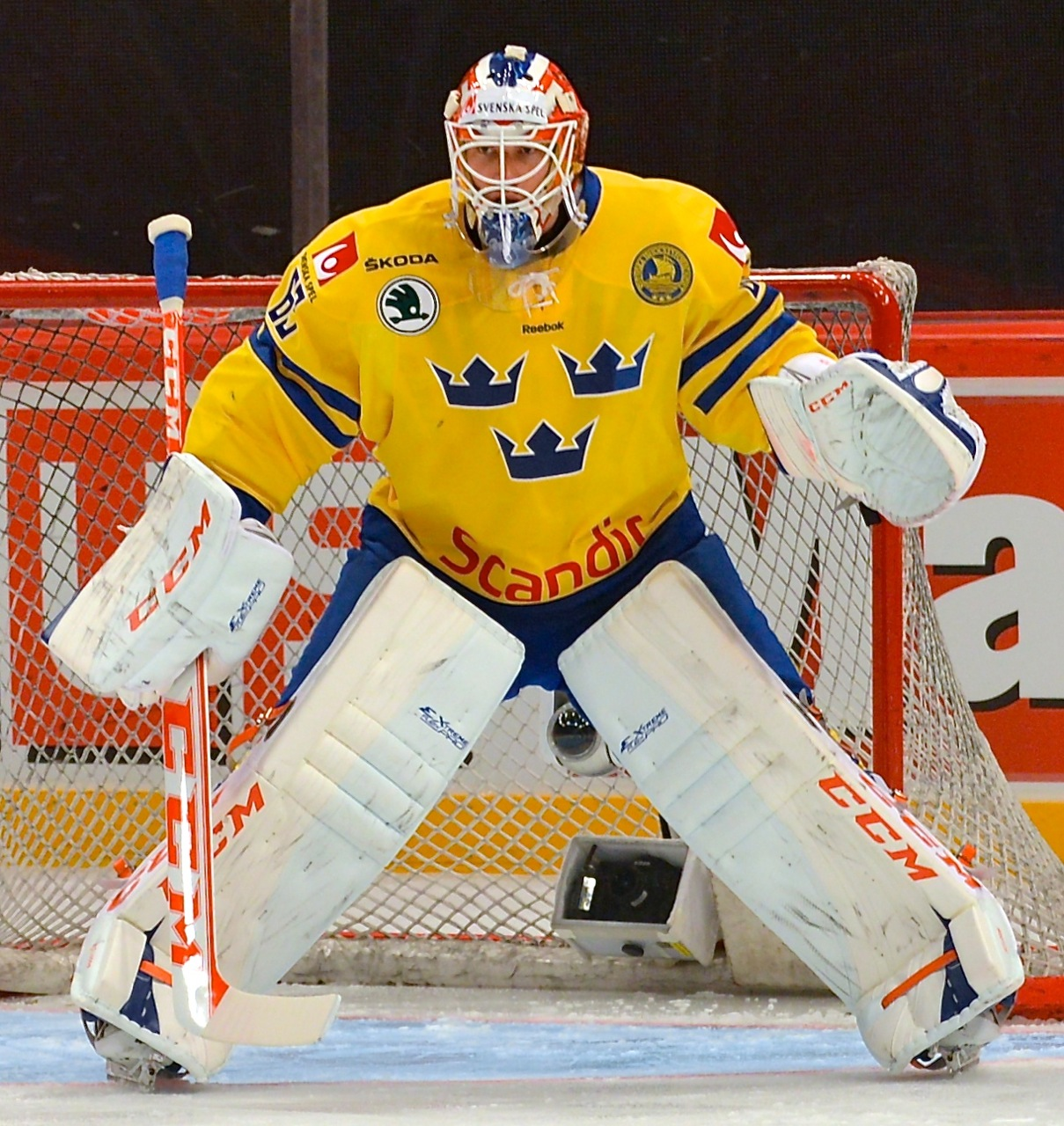 Anders Nilsson during Oddset Hockey Games against Russia (2-0) at the Ericsson Globe in Stockholm on May 4th, 2014.